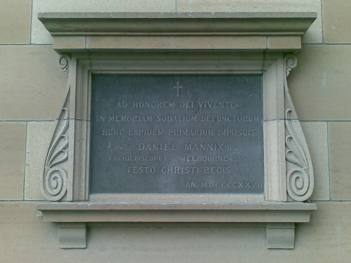 Foundation stone of the Memorial Chapel at Xavier College, Kew, Victoria, Australia.